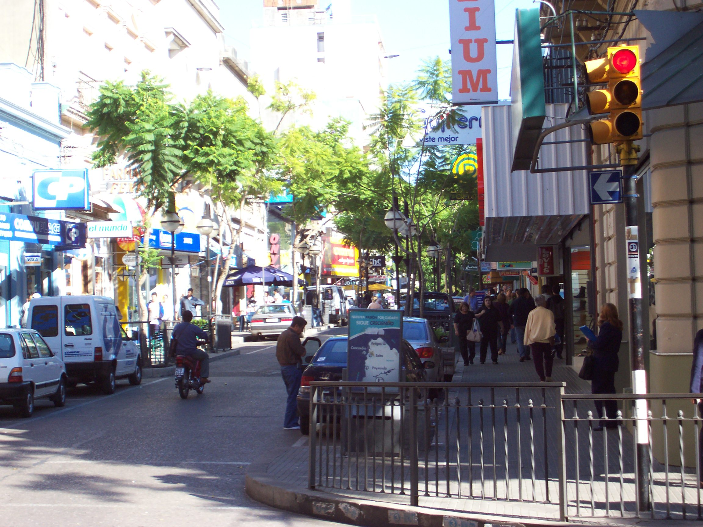 Uruguay Street in Salto's downtown, Salto, Uruguay